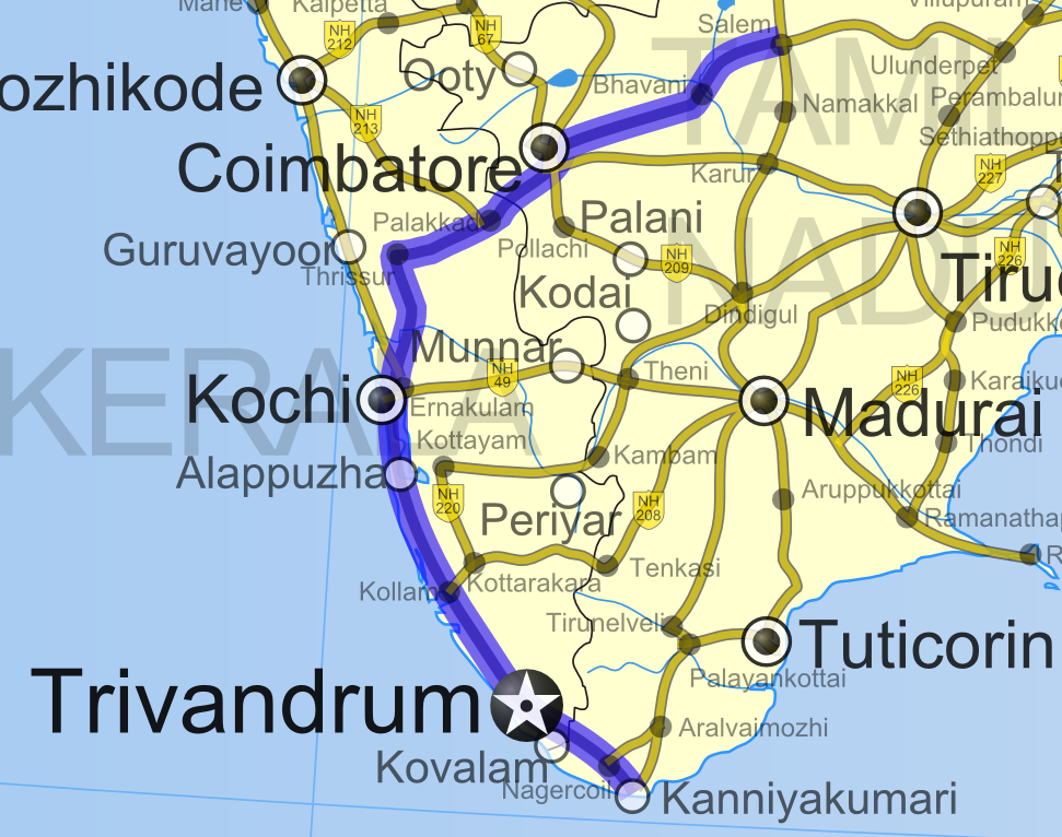 National Highway 47 in India